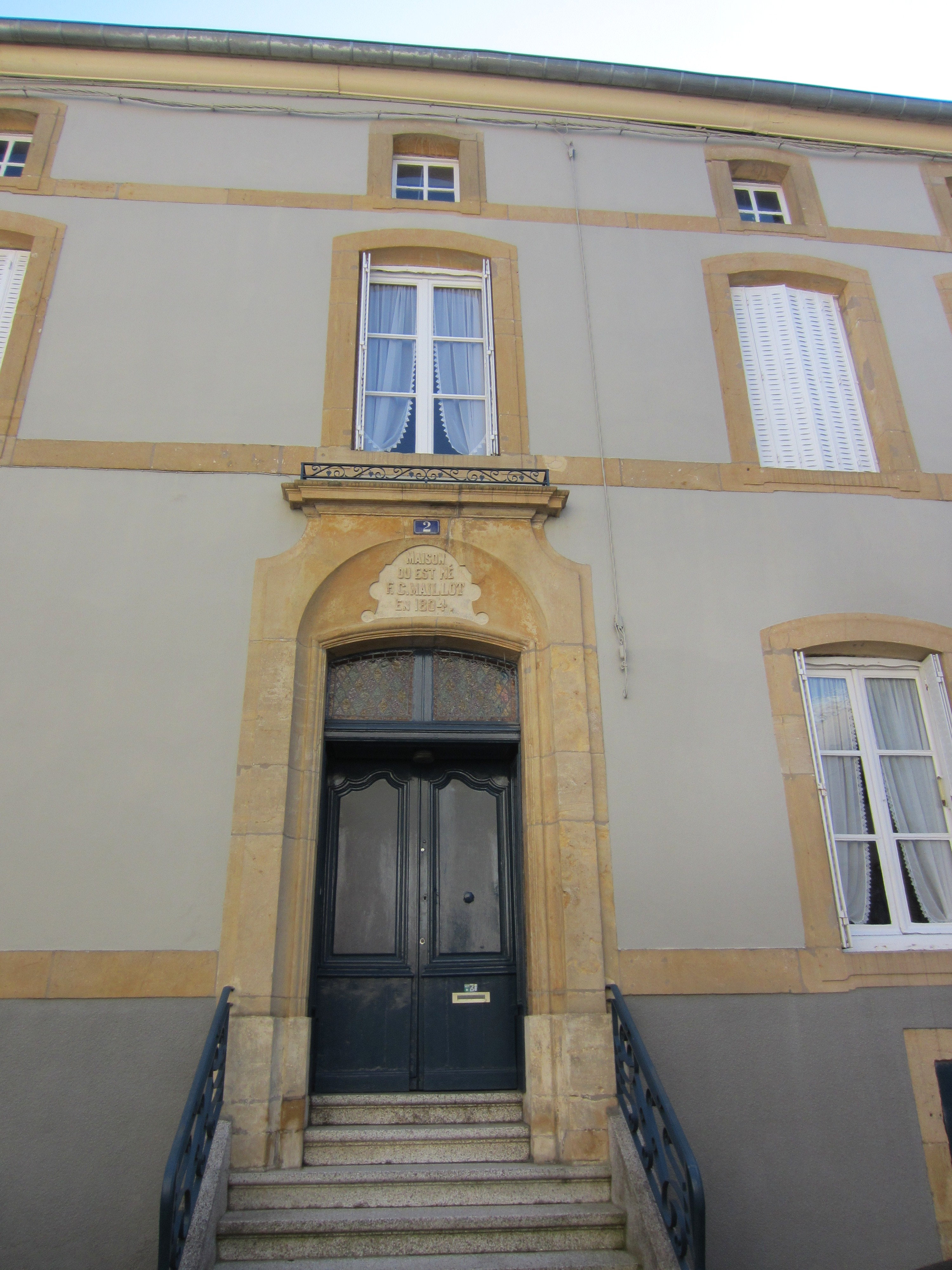 Description maison natale Maillot Briey Date26 September 2011Sourcemon appareil photoAuthorAimelaimePermission (Reusing this file) maison natale Maillot Briey